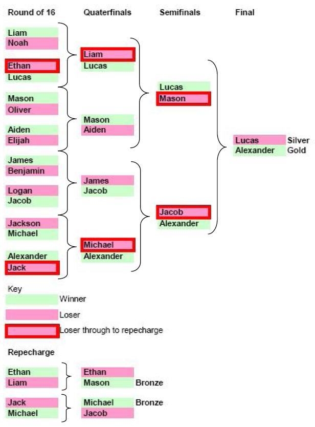 Taekwondo competition format